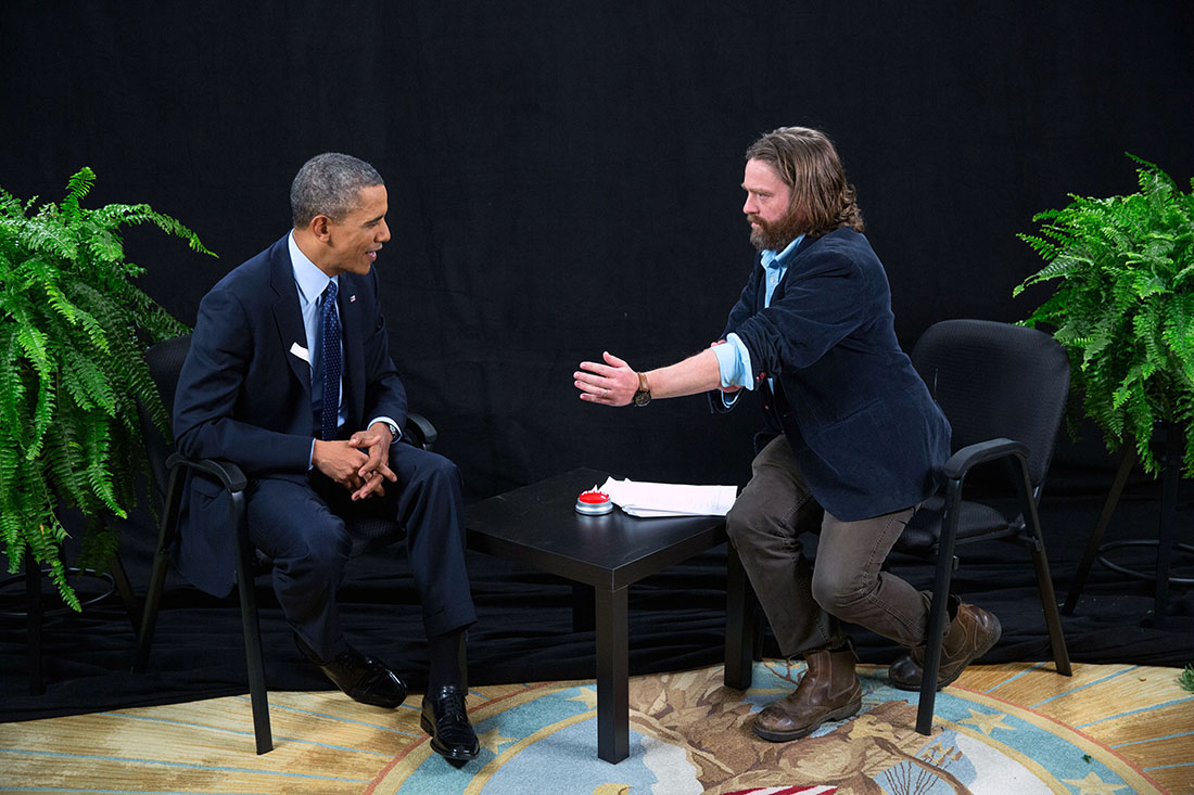 United States President Barack Obama being interviewed by Zach Galifianakis for "Between Two Ferns with Zach Galifianakis," in the Diplomatic Reception Room of the White House on 24 February 2014.